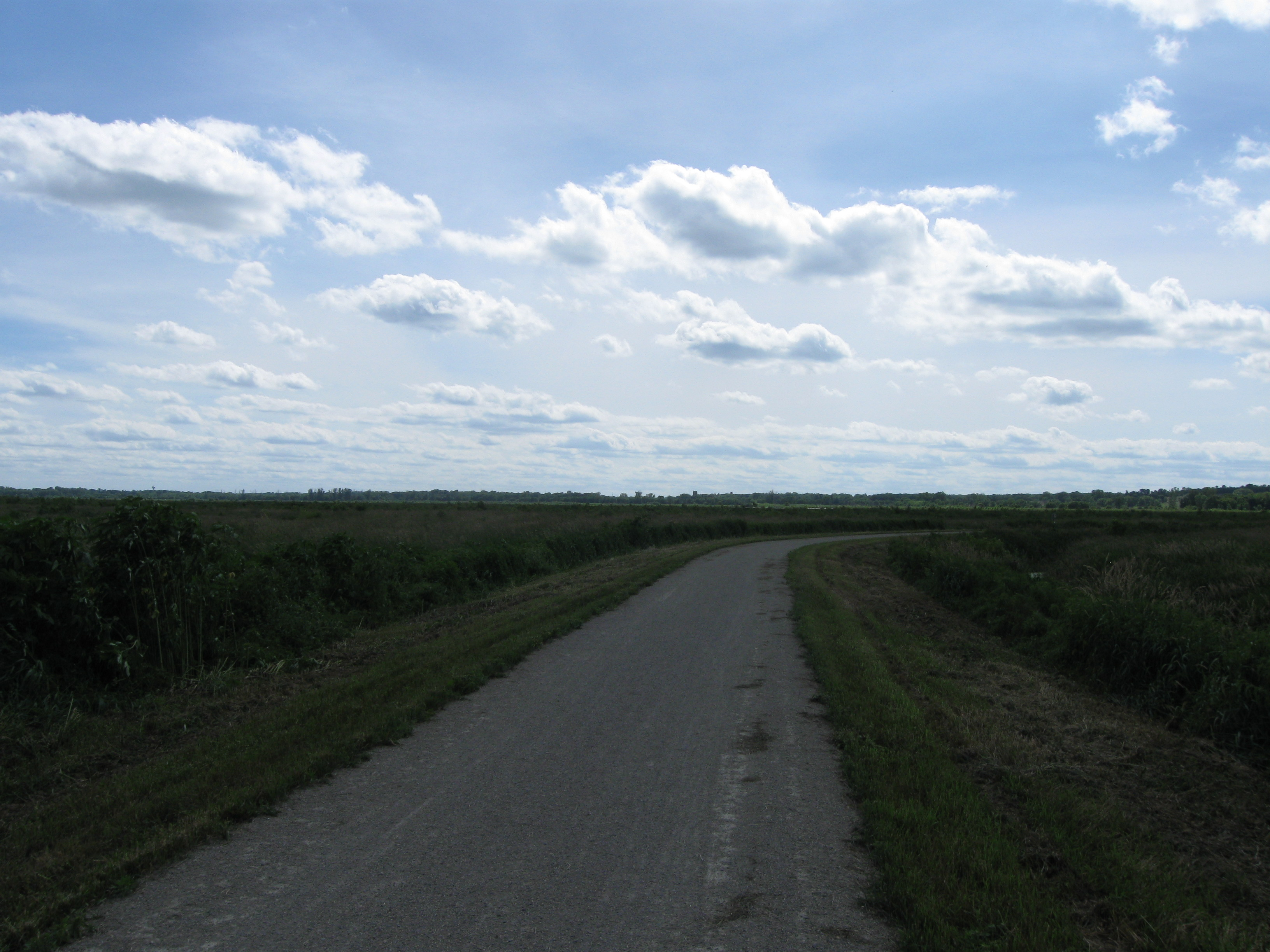 View along Glacial Drumlin trail, Zeloski Marsh